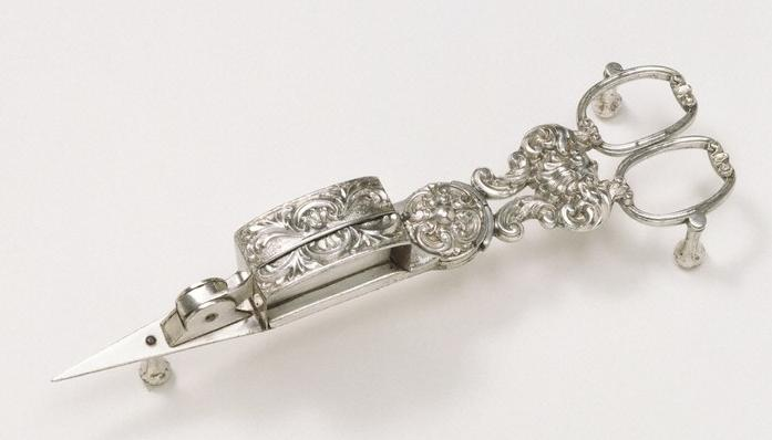 Snuffers, 1830-1840 V&A Museum no. 284-1899 Techniques - Close-plated iron or steel, with lead-filled silver Artist/designer - J. Hobday Place - Birmingham, England Dimensions - Length 19.4 cm, Width 6 cm, Depth 4.8 cm Object Type - Snuffers were first invented to cut off and retain the burned wicks of candles when the wax around them had melted; they were not necessarily used to extinguish the candle's flame. The point at the end was for retrieving the tip of the wick if it fell into molten wax. Snuffers are first recorded in the 15th century. Numerous patents for them are known from the mid-18th century, regularly reappearing with new improvements until 1840, when candles that completely consumed their wicks were first developed, rendering snuffers superfluous. Materials & Making - These snuffers have been close-plated. Close-plating was the application of a sheet of silver foil to a polished steel surface. The whole surface to be plated is first made smooth, then dipped in sal-ammoniac and then into molten tin, the sal-ammoniac serving as a flux. A thin foil of silver of the correct size is laid on and pressed evenly and smoothly over the surface. A hot soldering iron when passed over the foil serves to melt the tin, which acts as a solder between the iron and the silver, after which the piece is burnished. With close-plated articles, rust tended to appear relatively quickly, but it was none the less commonly used for buckles, knife blades, skewers, spurs, snuffers and other steel articles. Time - The mark of a crown between the letters' WR' dates the snuffers to the reign of William IV (1830-1837), though the use of the sprung cutter was superseded in a patent of 1810.